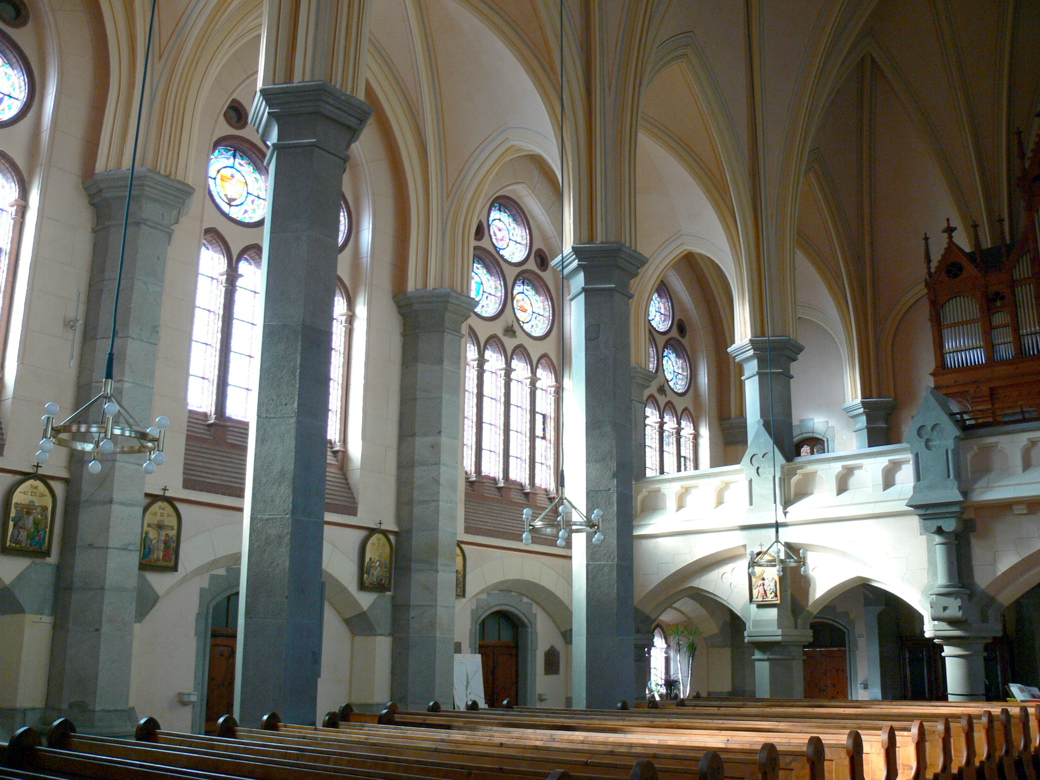 Aigen parish church: Interior